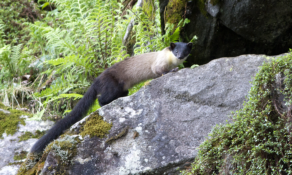 This photograph has been taken at Tungnath, Uttarakhand on 13.06.2013 during the trip with GoingWild.